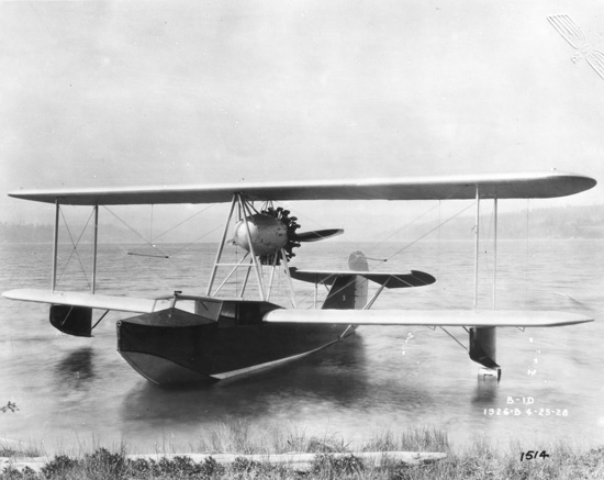 Boeing Model B1D or 6D